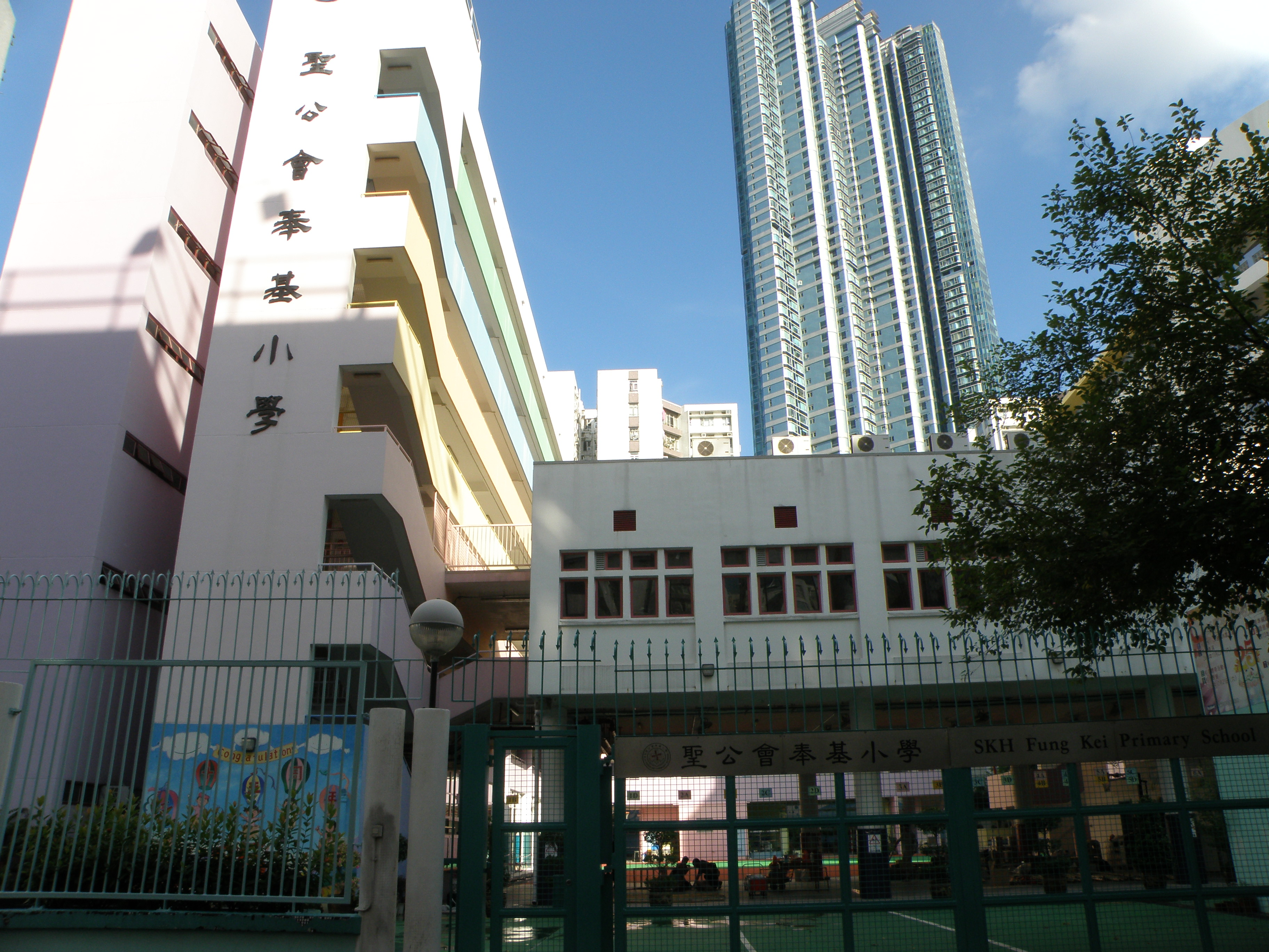 SKH Fung Kei Primary School in Hung Hom, Hong Kong.